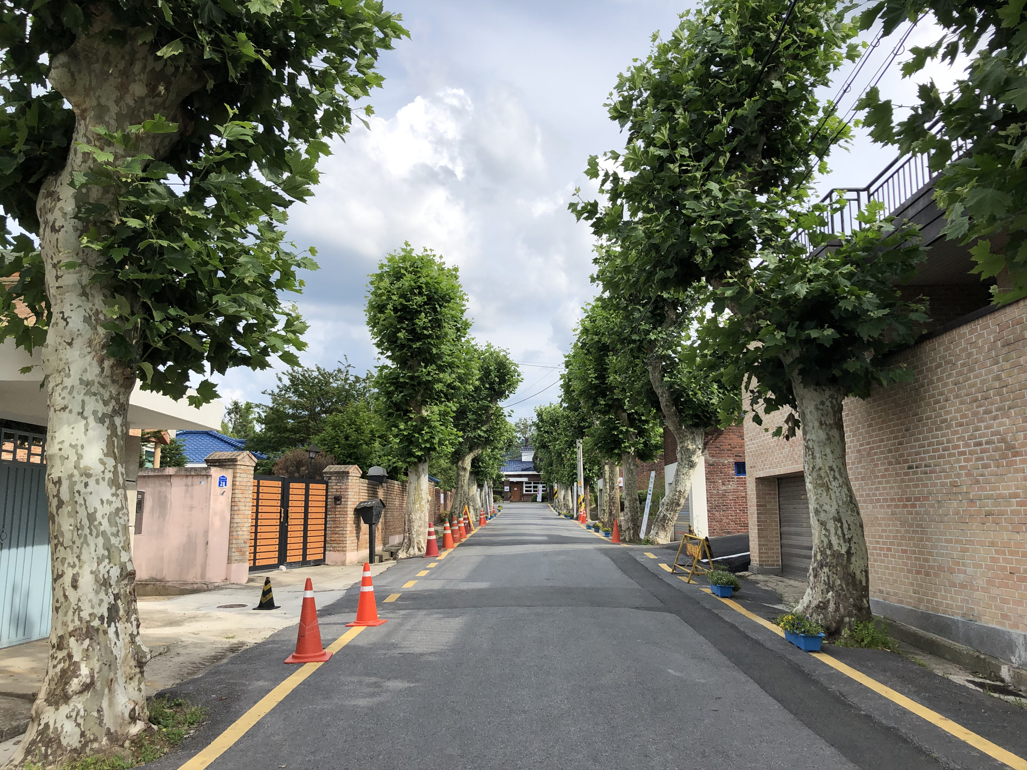 Temiorae Village in Daejeon